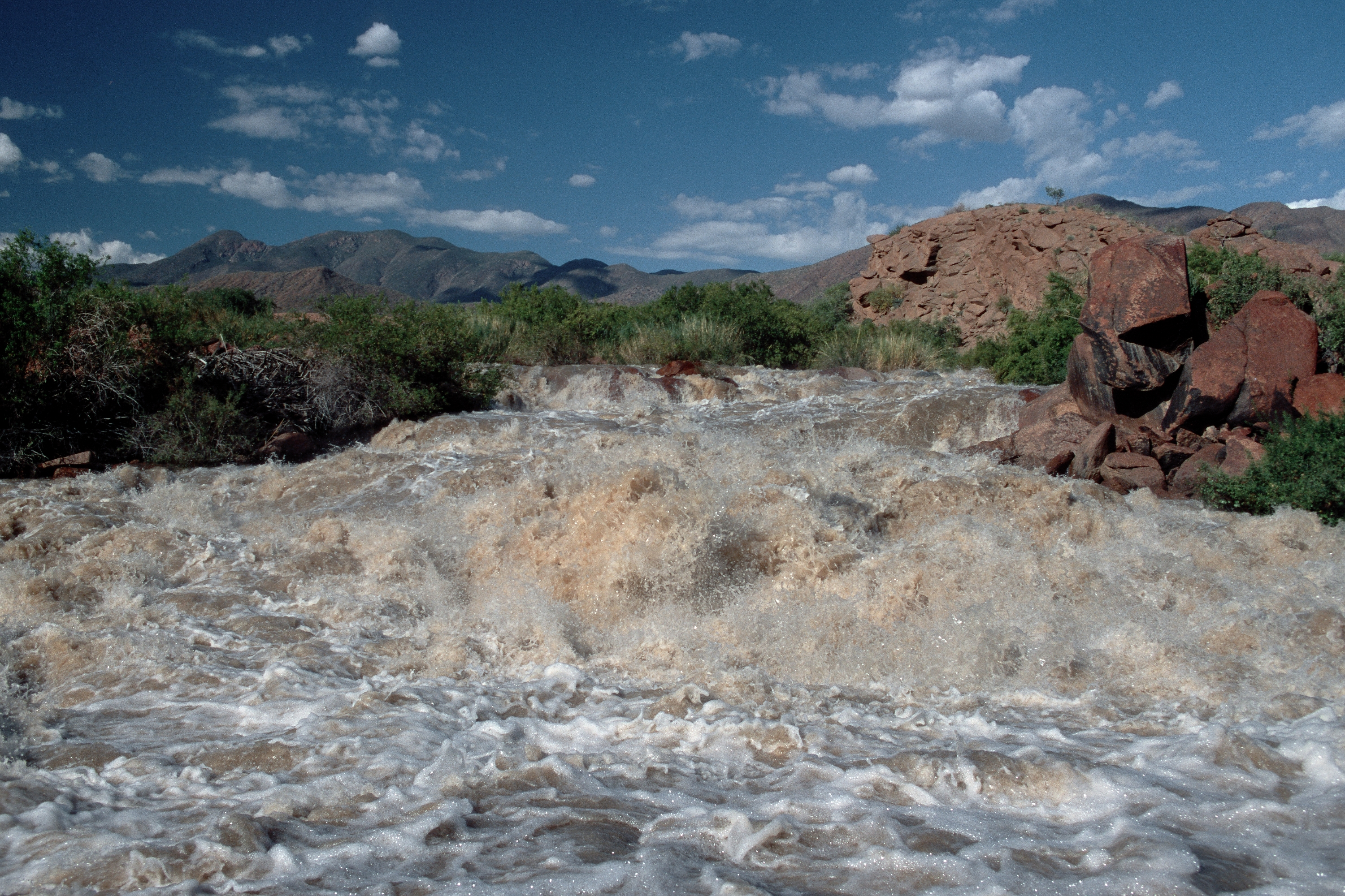 Rapids of Kunene